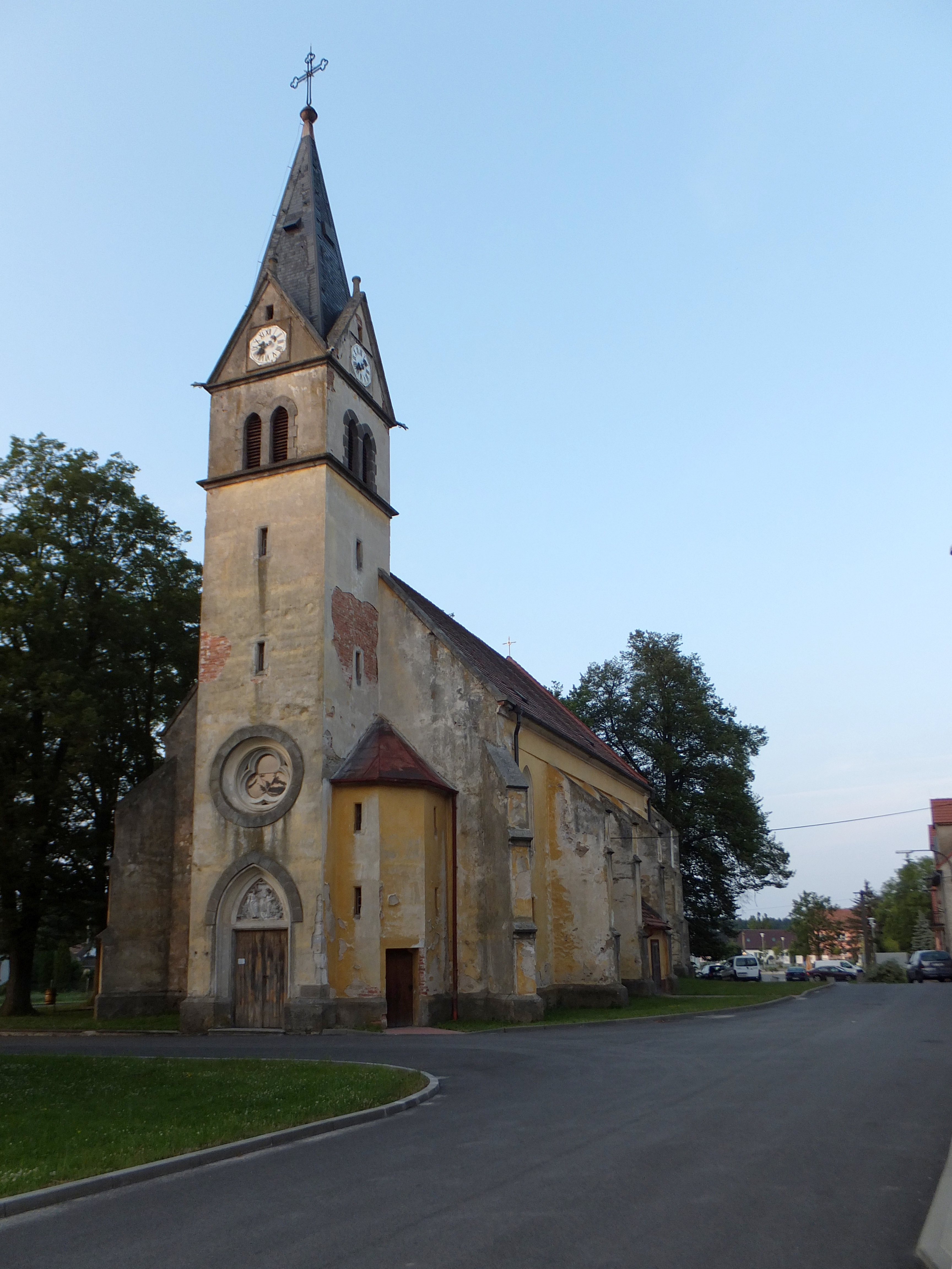 Rapšach - the Saint Sigismund church